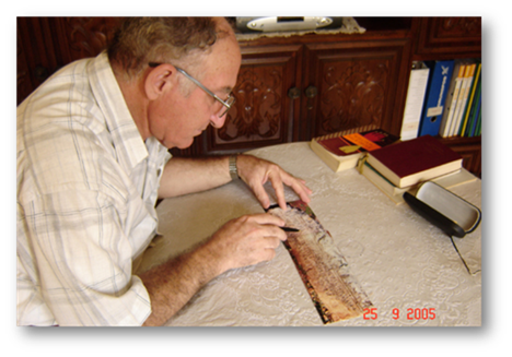 a picture of Syrian epigrapher working on an inscription.